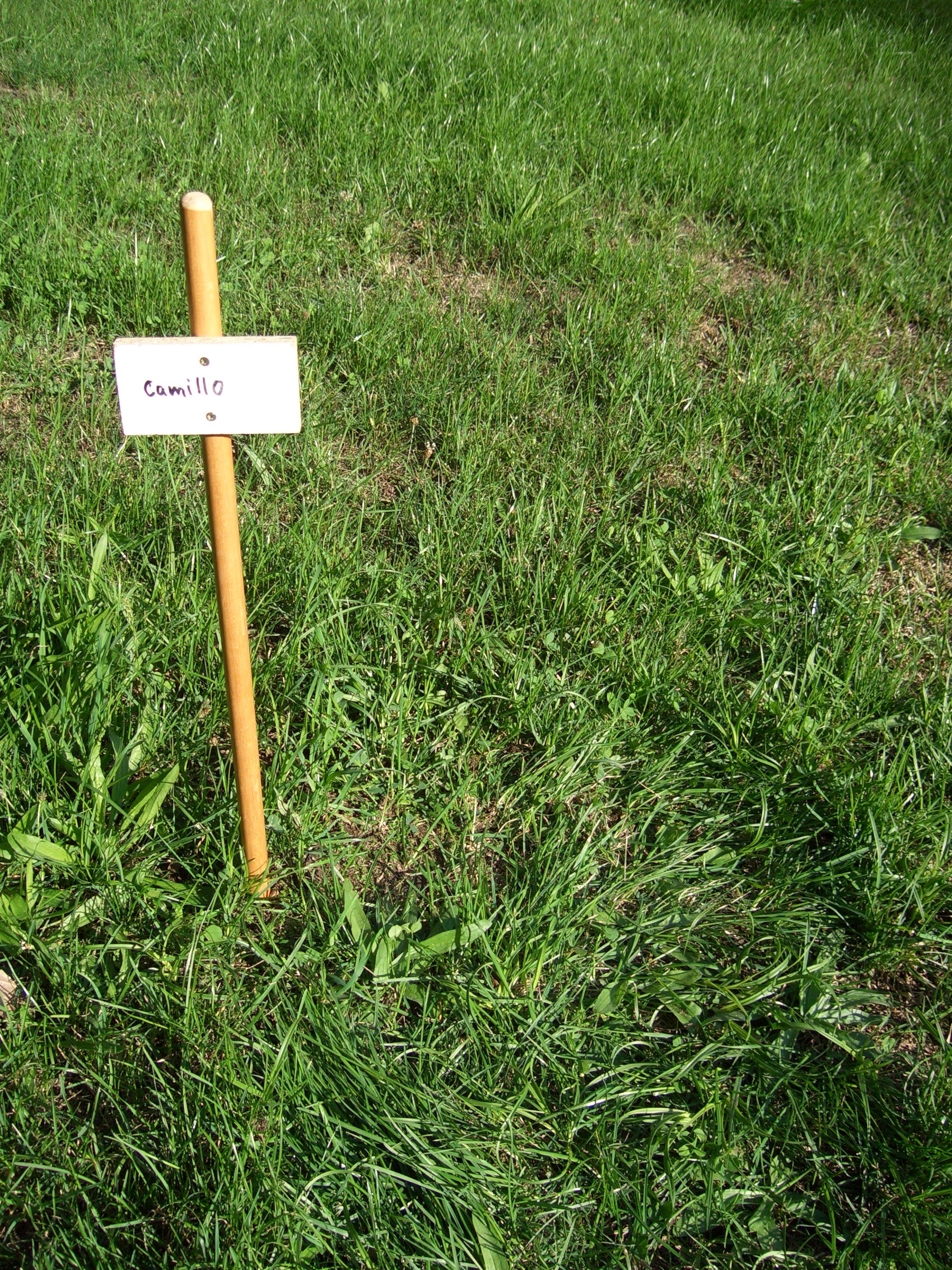 track start marked with signpost at left of the scent pad